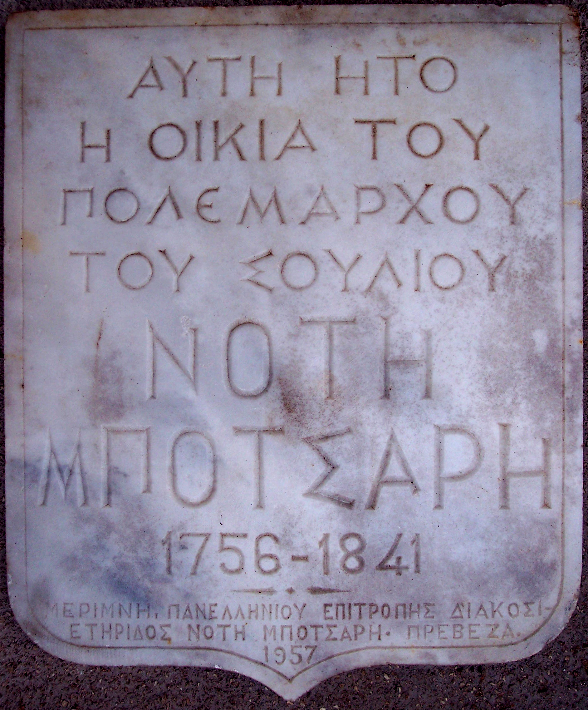 The inscription in the entrance of the house of Notis Botzaris (1756-1841) in Preveza, which existed until 1970.